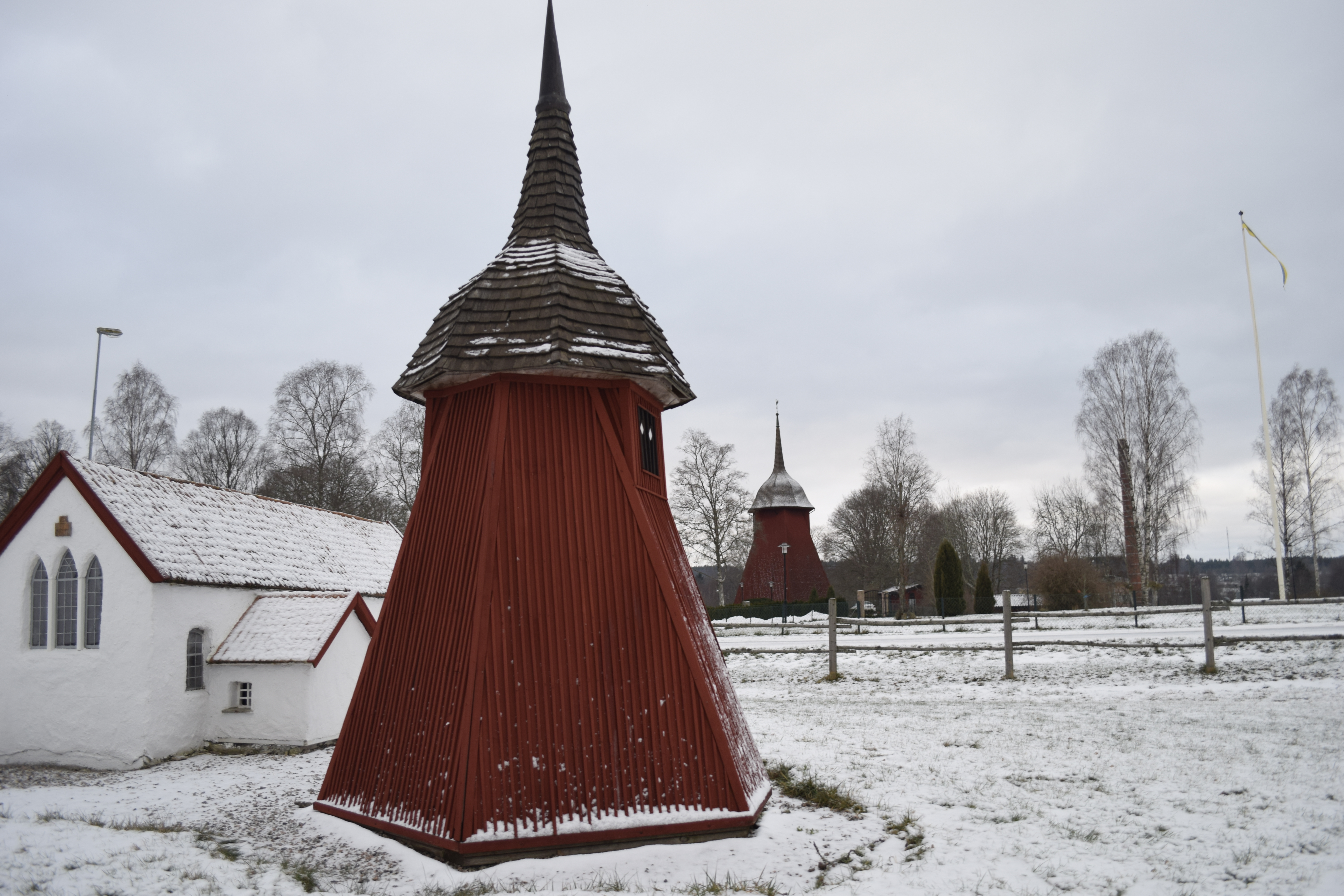 Minimalistic village in Timmele